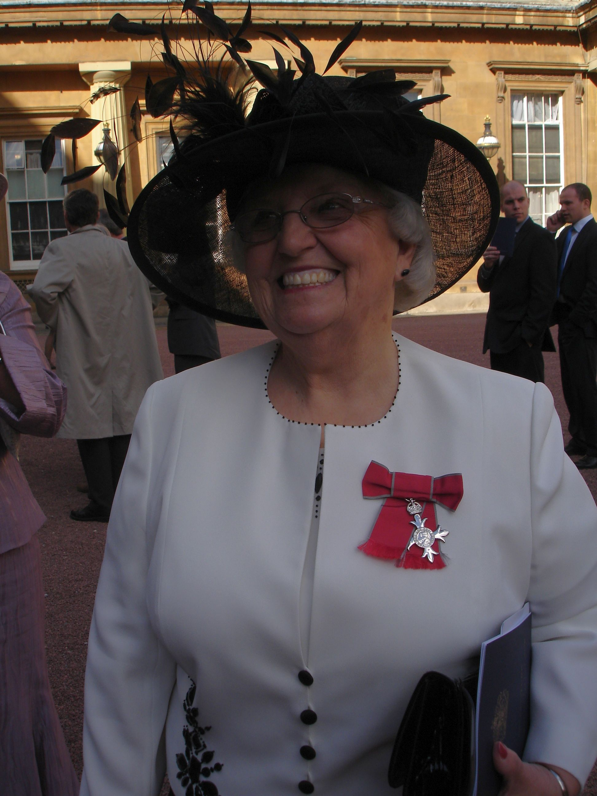 King MBE Hon Sec WLIBA, at Buckingham Palace 2008